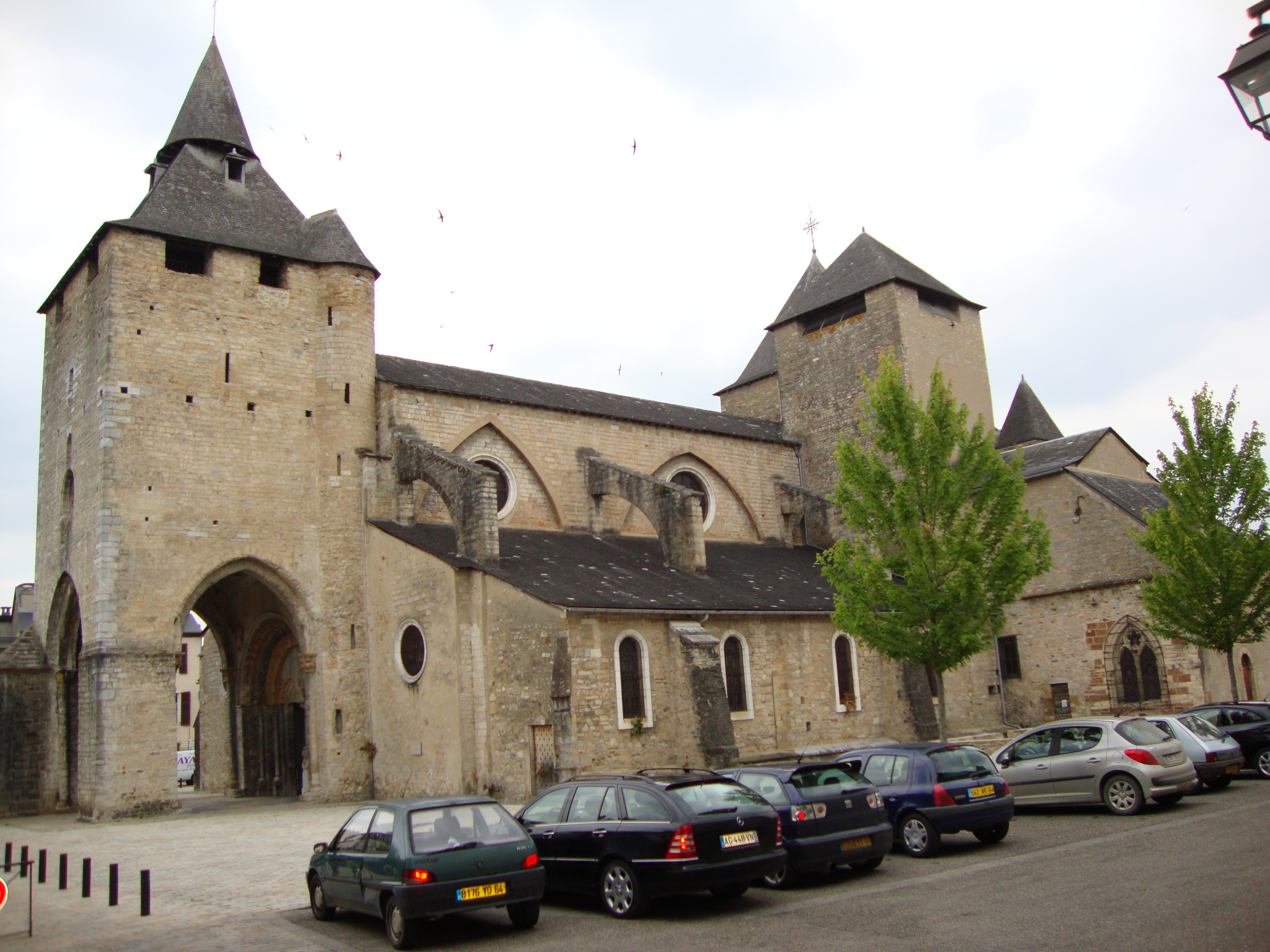 Oloron-Sainte-Marie (Pyr-Atl) vue latérale Cathedrale-Ste Marie